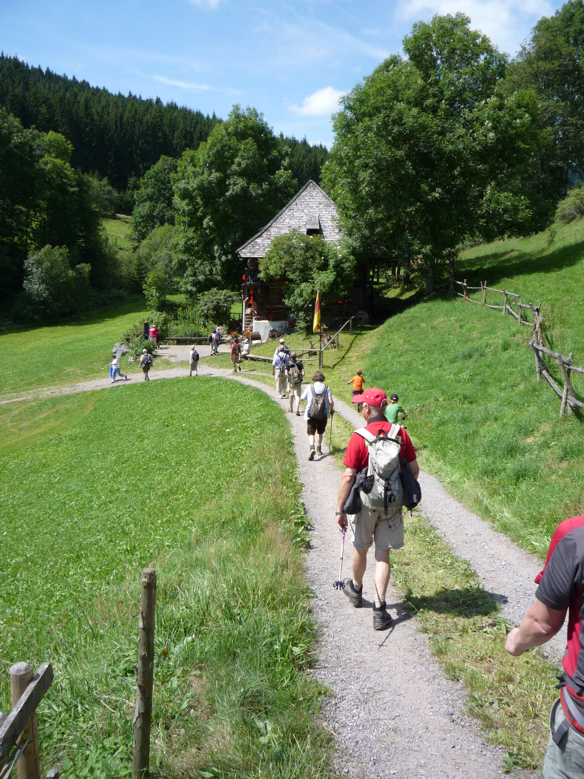 Group of hikers at the Öhlermühle in Titisee-Neustadt, Black Forest during "Deutscher Wandertag 2010"